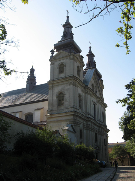 Carmelite Church, Lviv